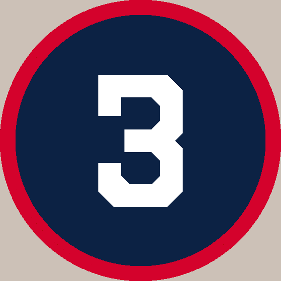 Player: Earl Averill. A recreation of how it looks at Progressive Field, in which the background is beige on a blue circle with white numbers and red circling.